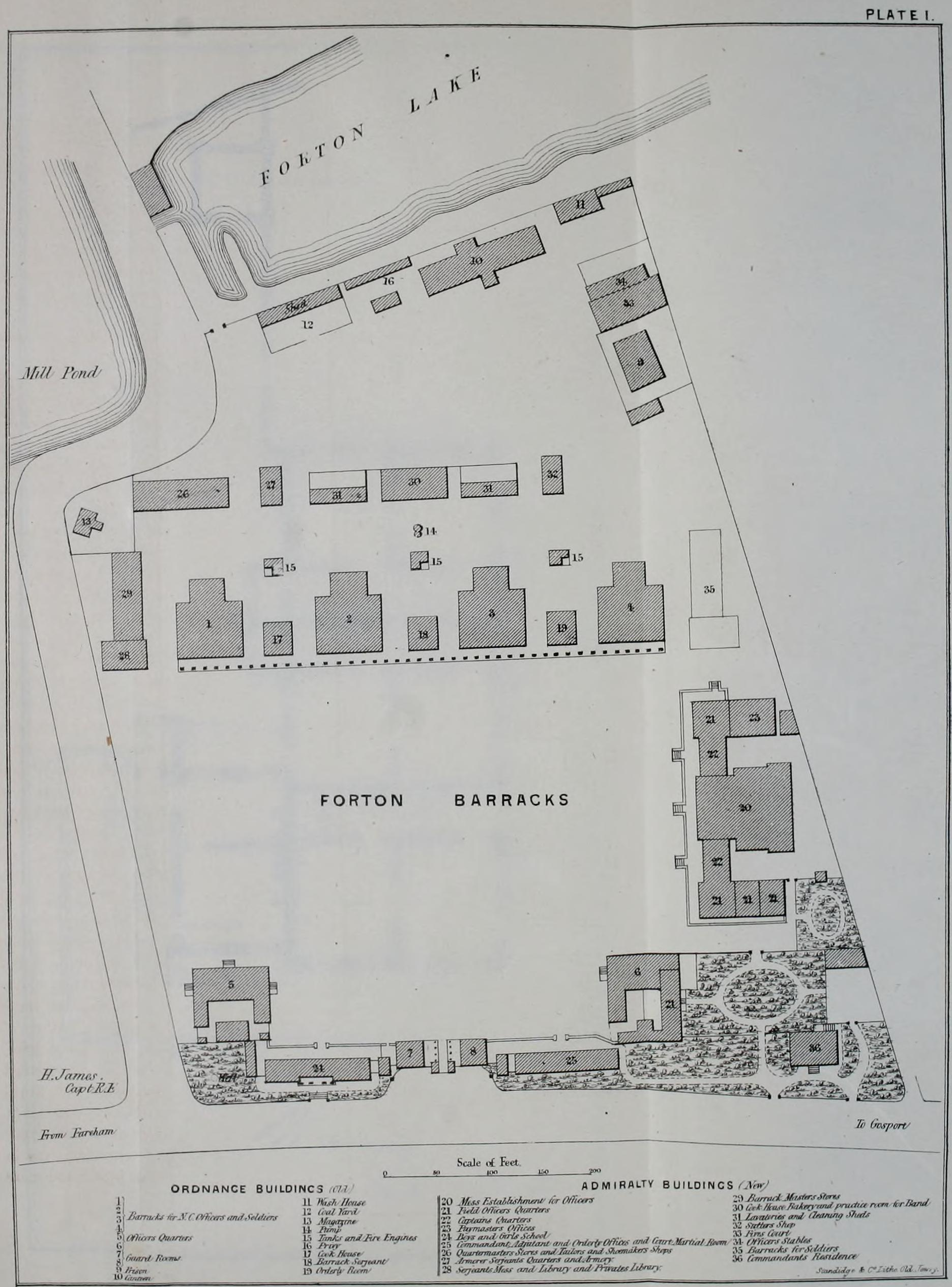 Plan of the additions to Forton Barracks.